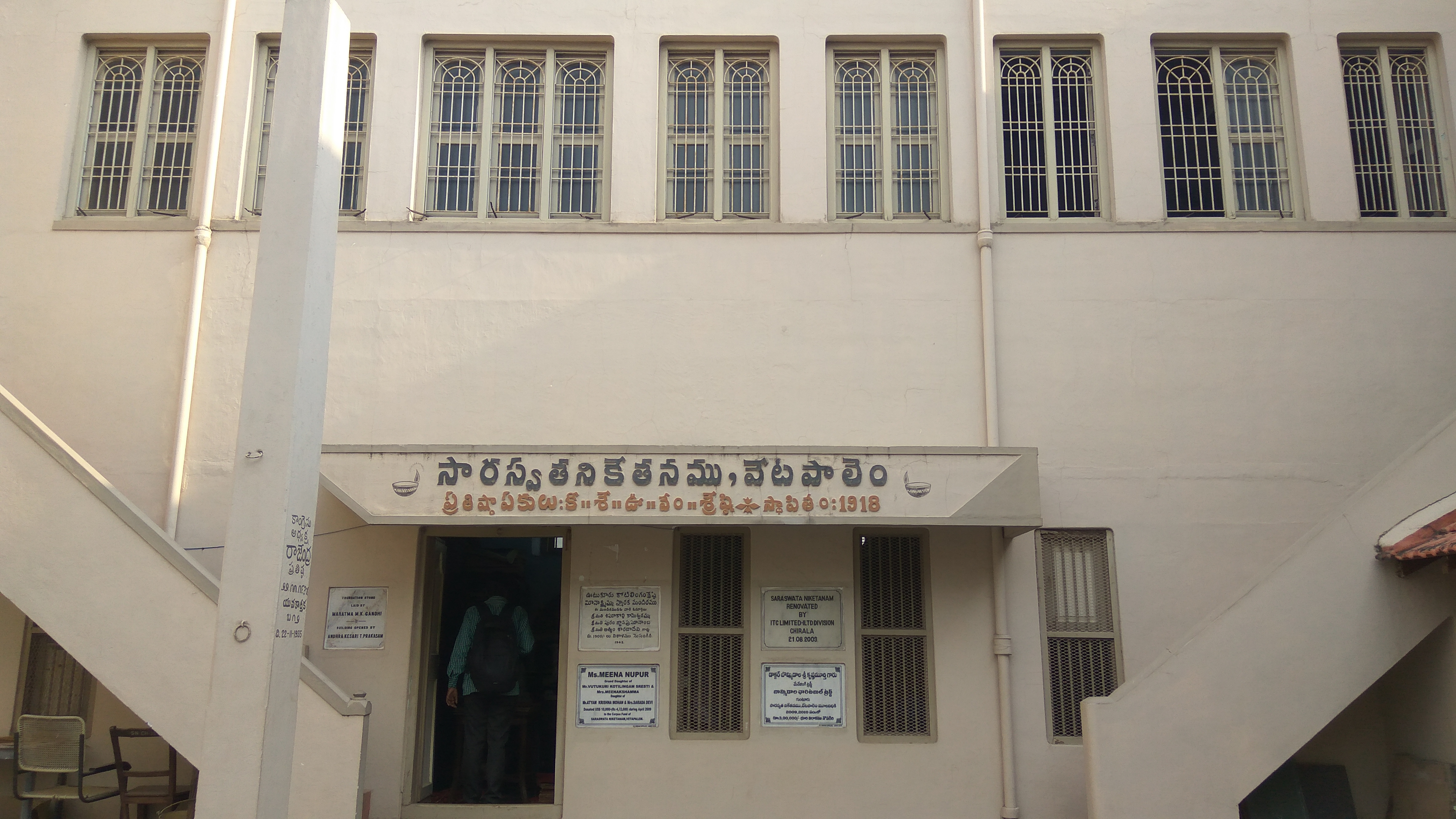 Building of Vetapalem Library